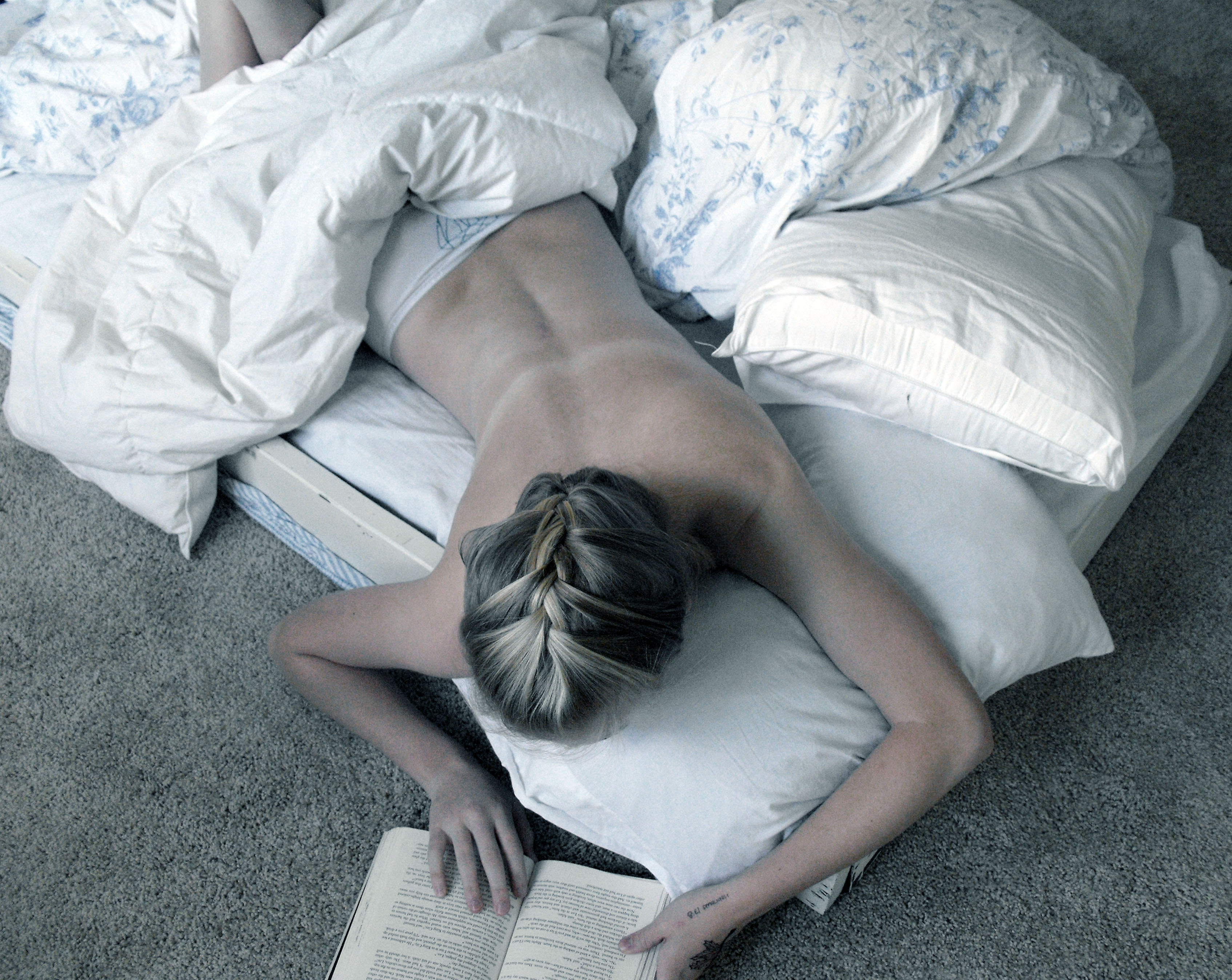 Reading in bed.